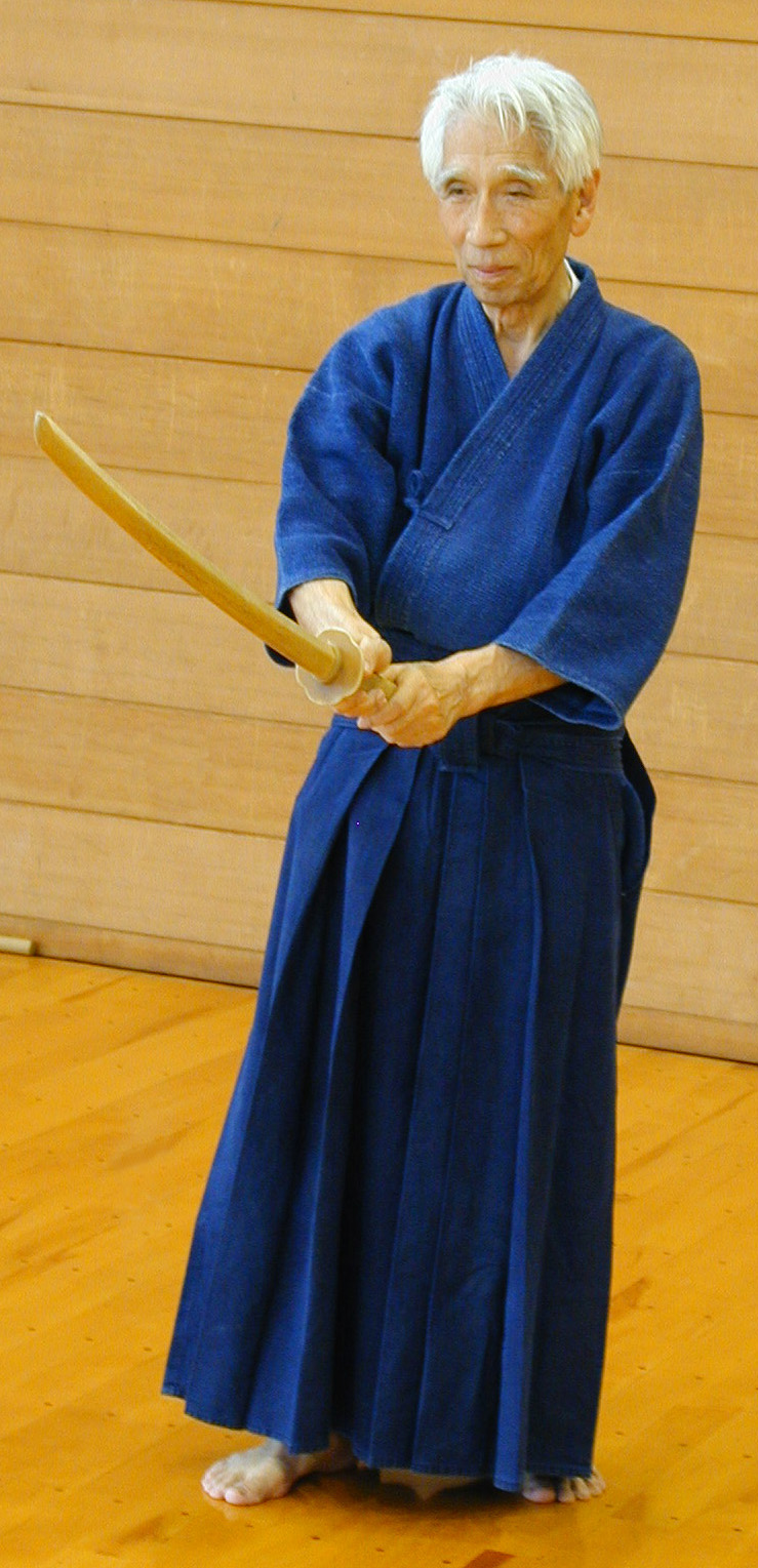 Nishioka Tsuneo's 2003 Keikokai; please do not use without reference.